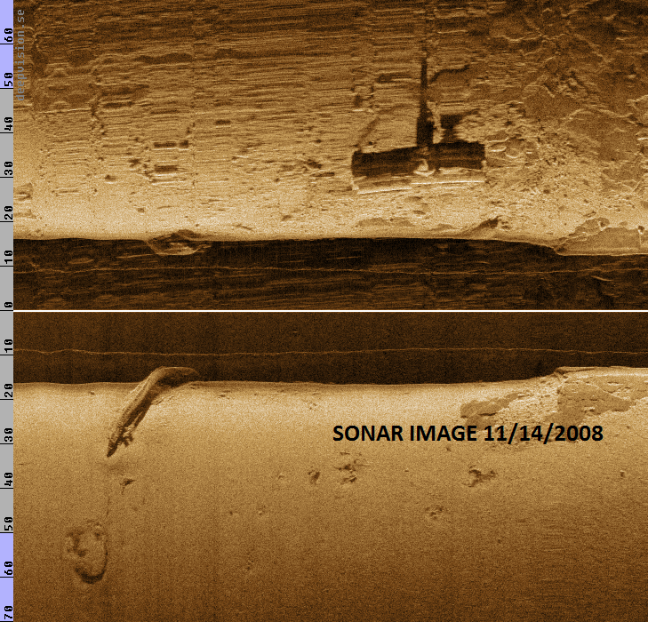 14th of November 2008 sonar image of submarine S-2